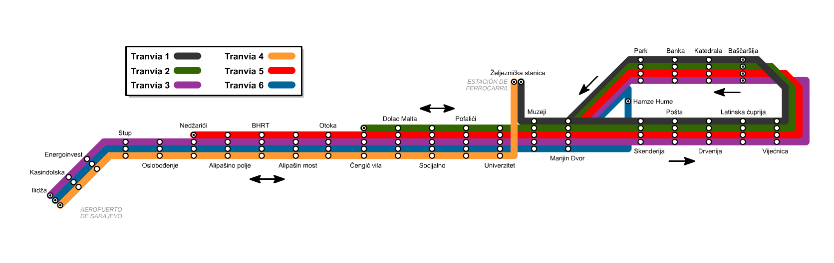 Diagram of the Sarajevo tram system, Bosnia and Herzegovina